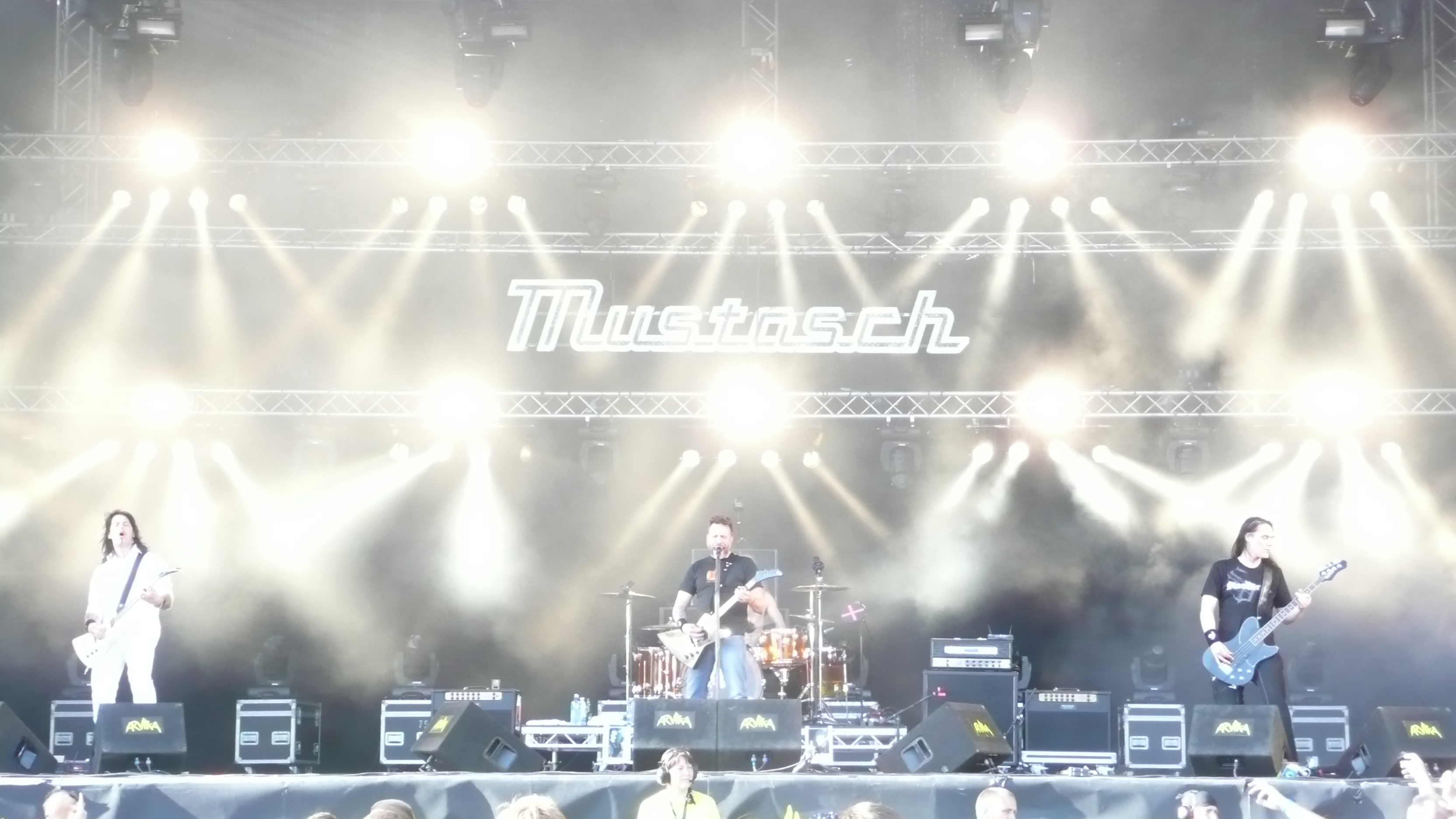 Mustasch performing in Arvika, Sweden, July 2009